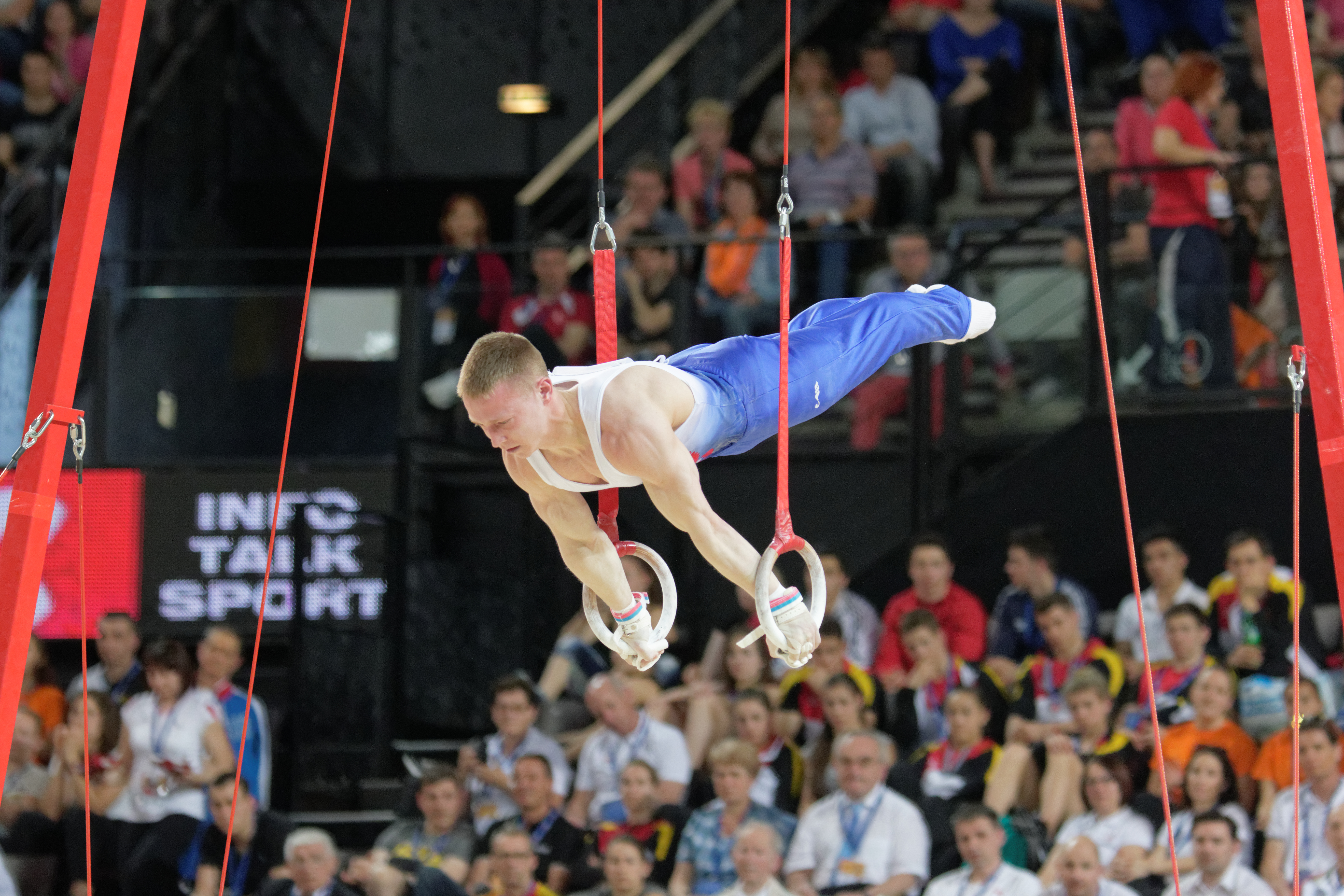 2015 European Artistic Gymnastics Championships. Rings.